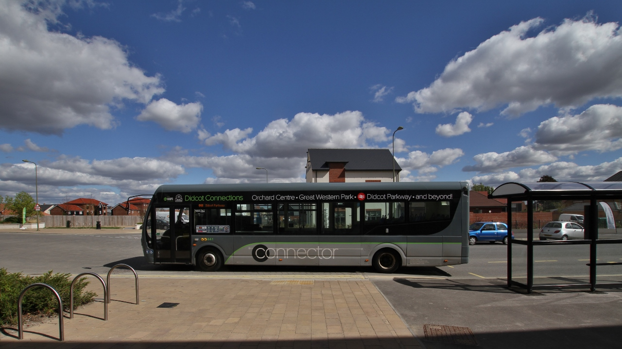 A Thames Travel bus on route 98 in Grenwood Way, Great Western Park, Didcot, Oxfordshire. The bus is a Wright StreetLite, registration mark SK66 HRN, fleet number 441.